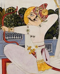 Bakht Singh practicing archery. Done in gauche on paper, circa 1750. Cropped to make the image more akin to an infobox portrait.